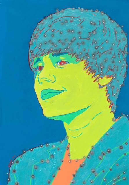 Mitic's Portrait of Justin Bieber, 2011. 30”x40”, bullet holes, acrylic on canvas.